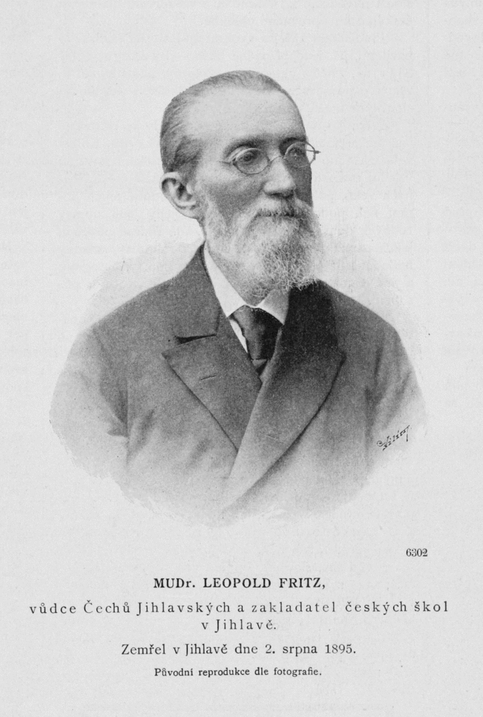 Portrait of Leopold Fritz (1813-1895), Czech physician and politician from Jihlava